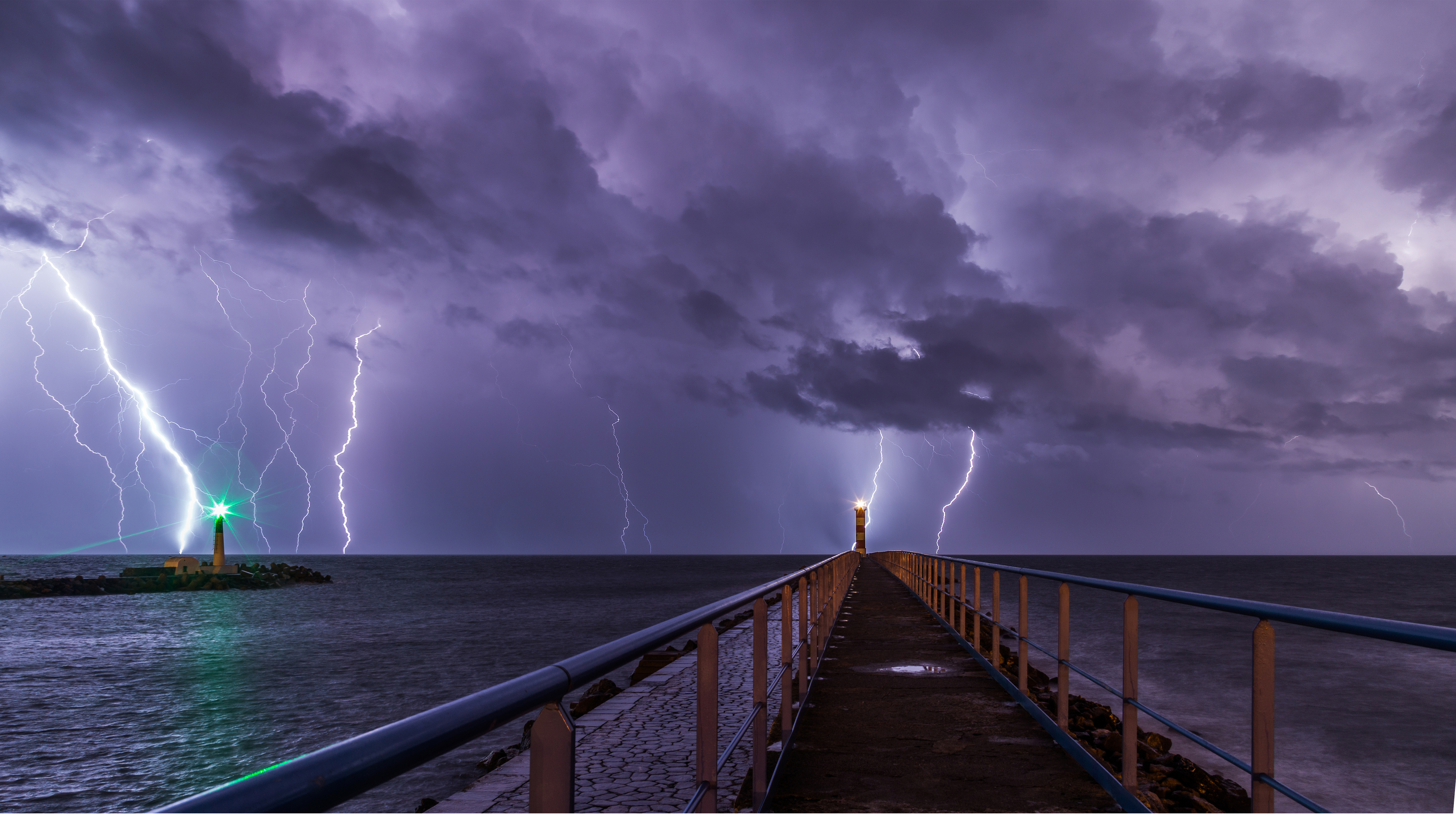 Port and lighthouse in Port-la-Nouvelle in the Aude department in southern France during a thunderstorm.